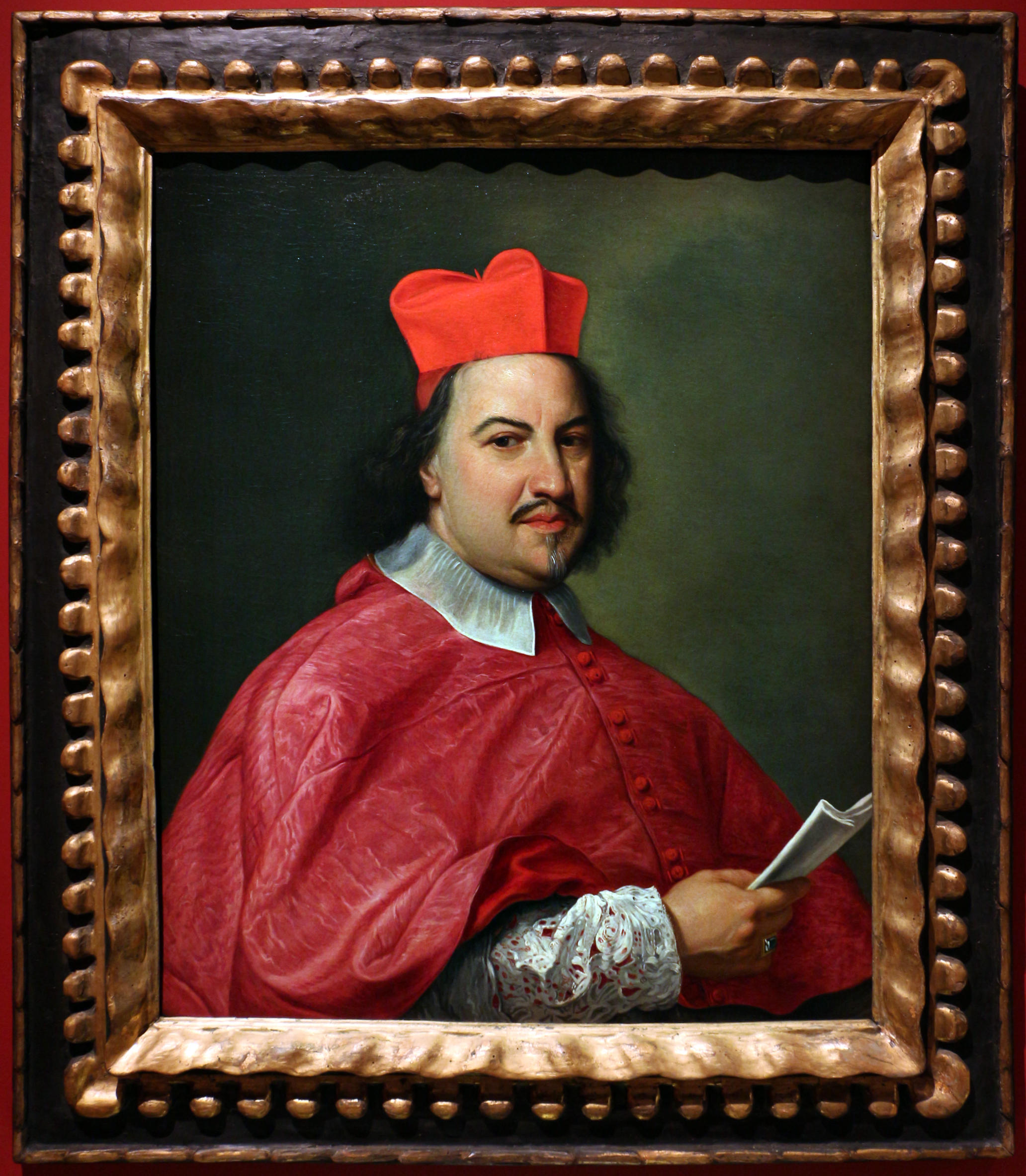 Fondazione Cavallini Sgarbi, on exhibition in Osimo (2016)